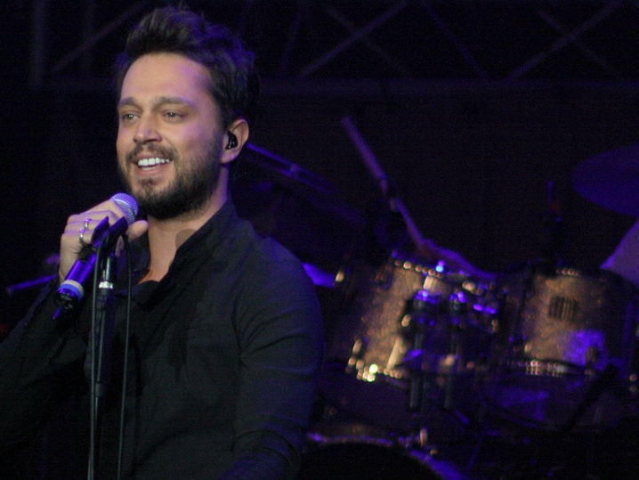 Murat Boz, October 2011.